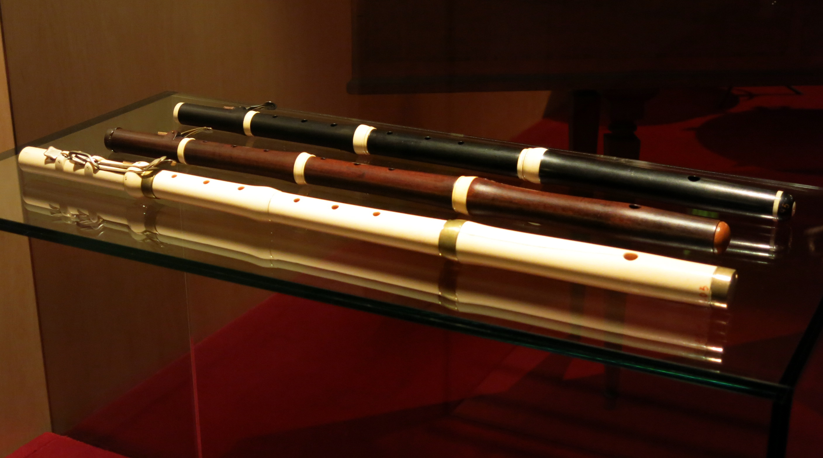 Western concert flutes, Museu de la Musica de Barcelona